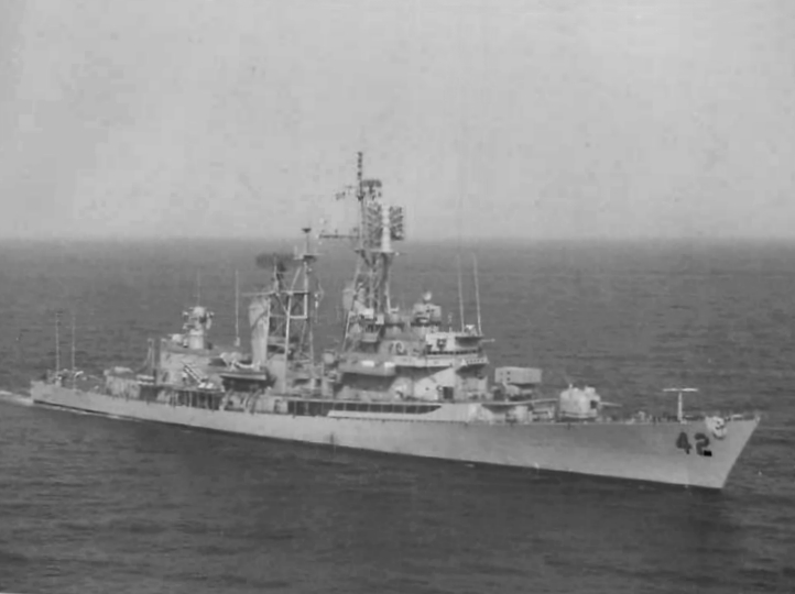 The U.S. Navy guided missile destroyer USS Mahan (DDG-42) during the 1991-92 deploymant to the Persian Gulf. Note the darkened hull number.